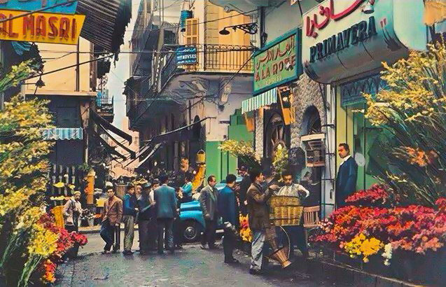 Bab Idris - Beirut- 1960